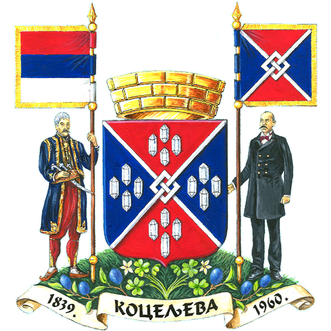 Coat of arms of Koceljeva (big)